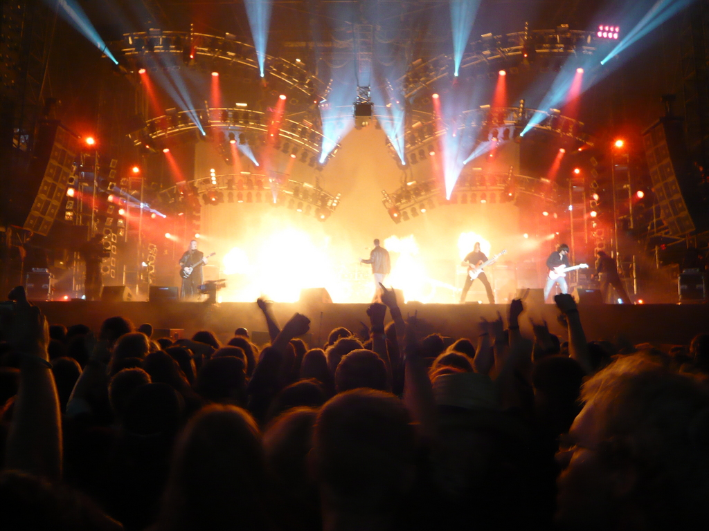 Iced Earth performing at Wacken Open Air in 2007